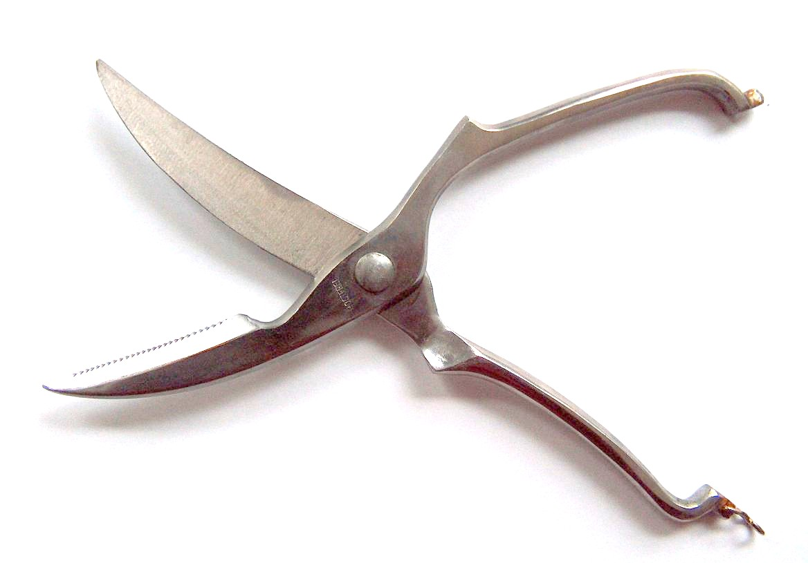 Poultry shears Fotograf: Benutzer:MarkusHagenlocher